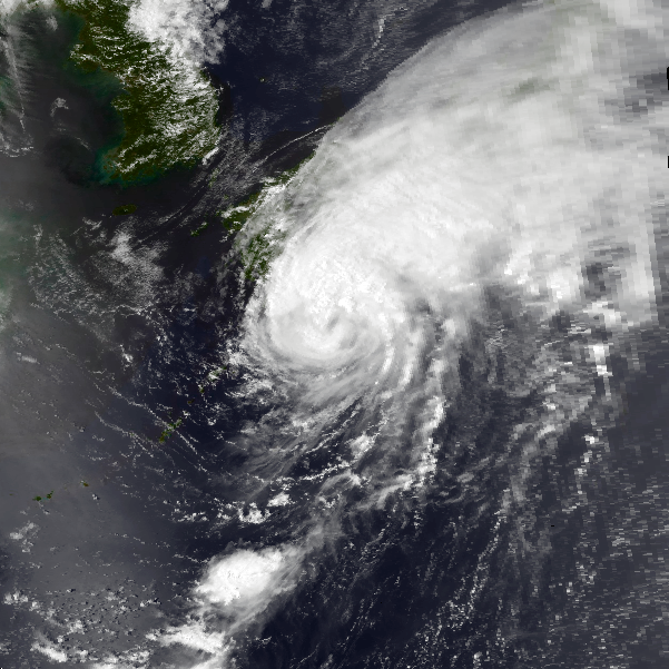 Severe Tropical Storm Irving on August 3, 1992